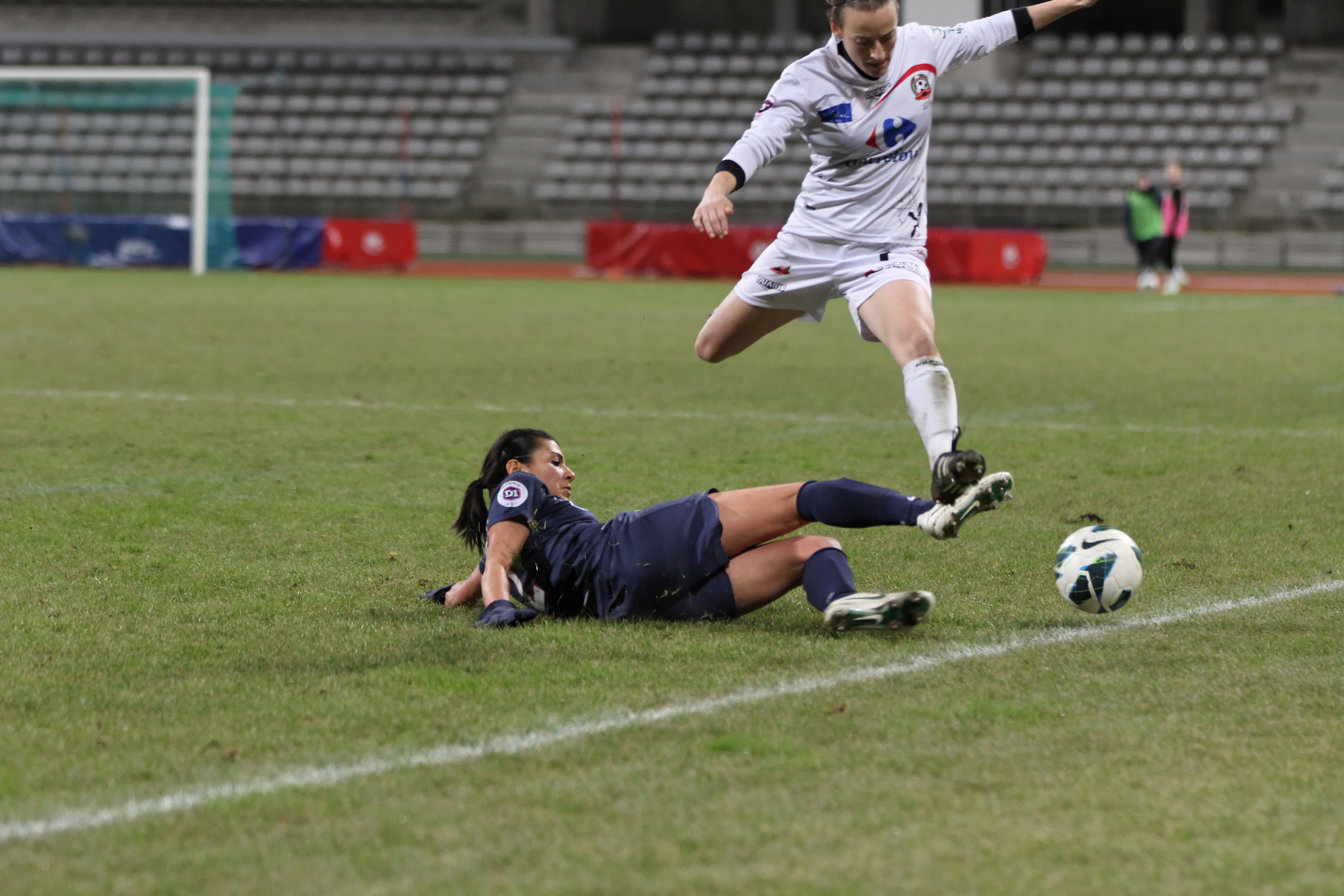 PSG-Juvisy, december 9th, 2012. Kenza Dali (PSG) and Émilie Trimoreau (Juvisy).